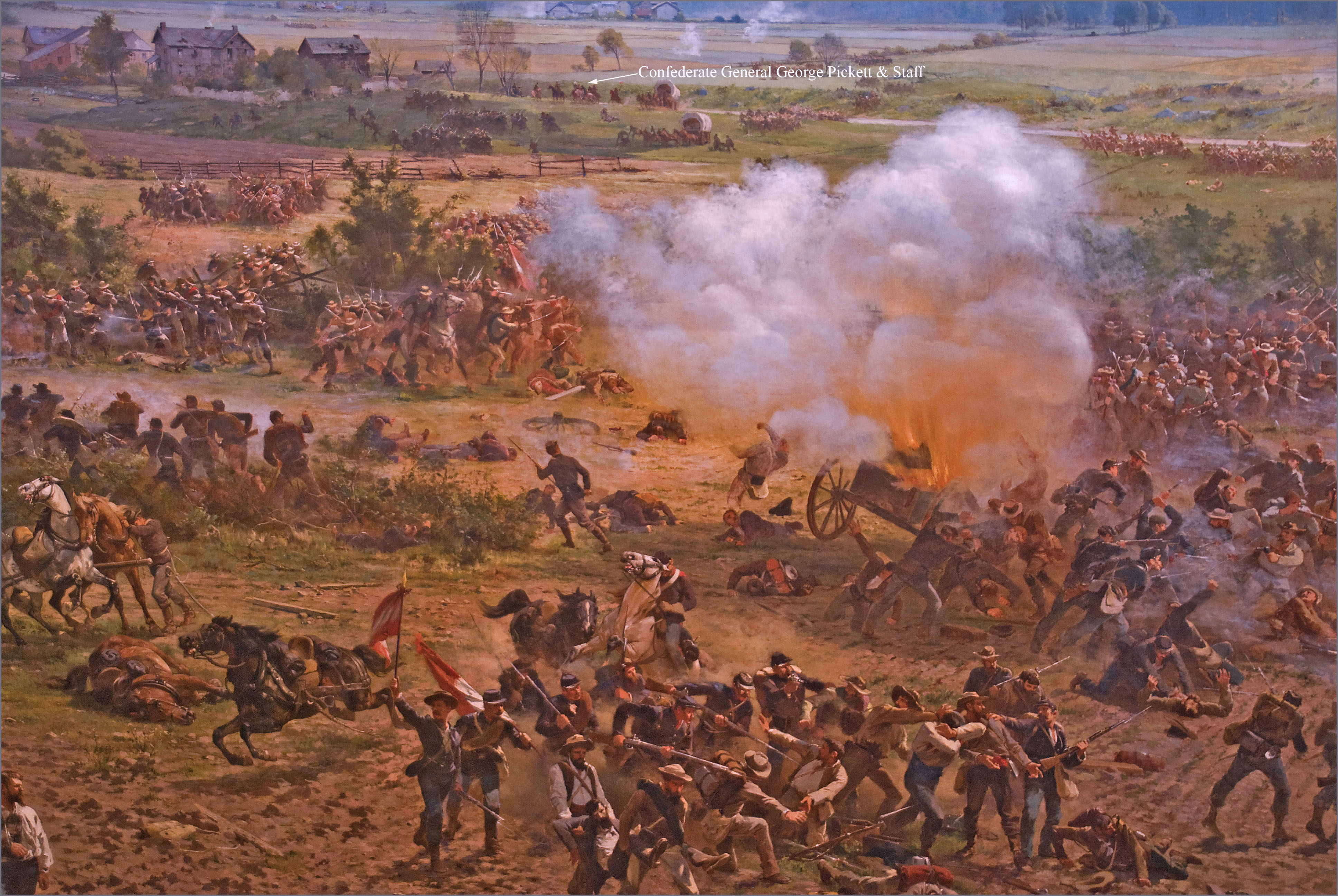 'The Battle of Gettysburg', also known as the Gettysburg Cyclorama, is a cyclorama painting by the French artist Paul Philippoteaux depicting "Pickett's Charge", the climactic Confederate attack on the Union forces on Cemetery Ridge during the Battle of Gettysburg on Friday afternoon July 3, 1863. Image by Ron Cogswell using a hand-held Nikon D80 (1/10 sec., f/5, ISO 400 and 50 mm) at 7:15 pm July 28, 2012, during an after-hours presentation on the Gettysburg Cyclorama conducted by Chris Brennaman.